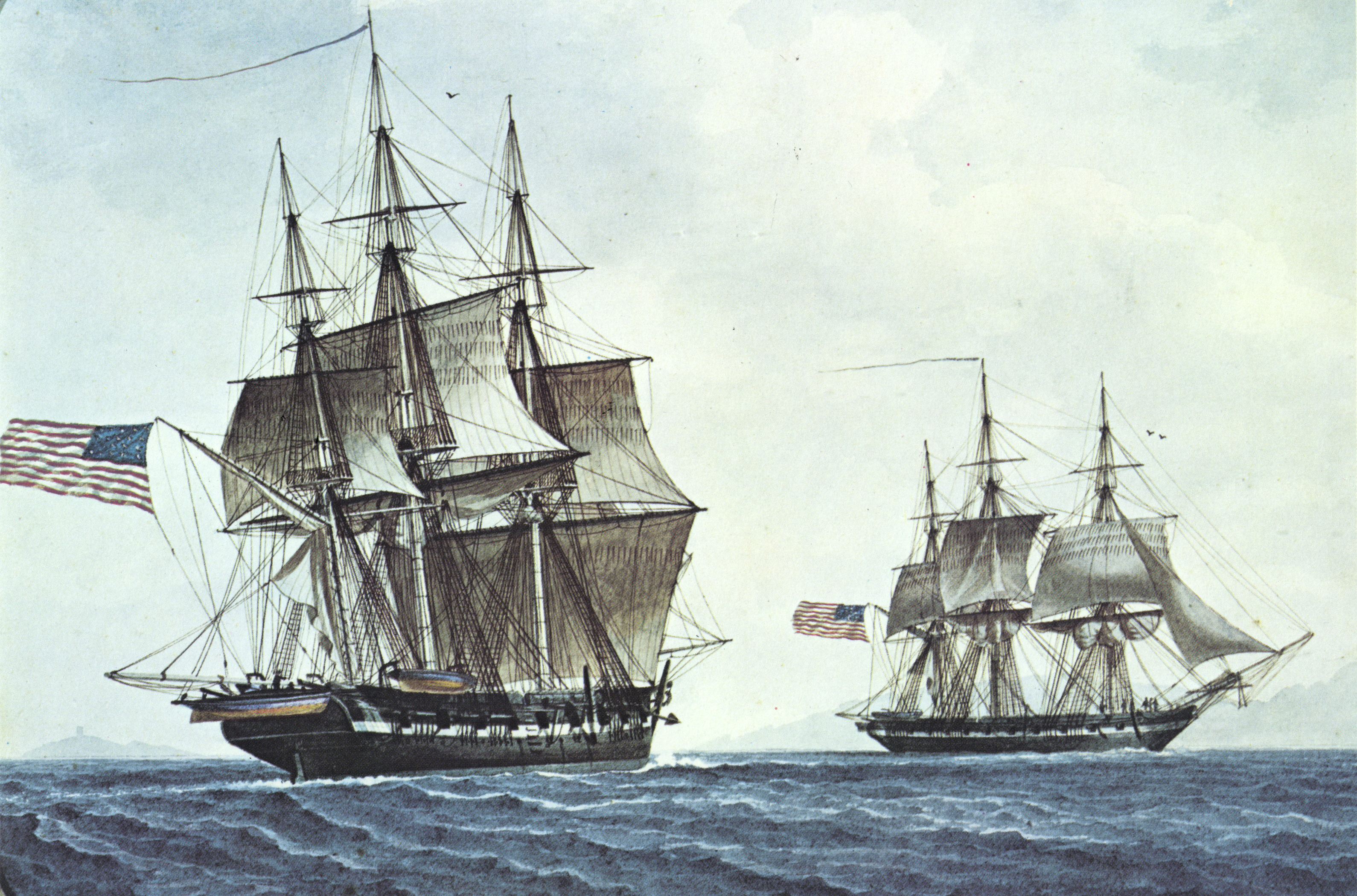 Two views of the same ship, a US three-masted ship